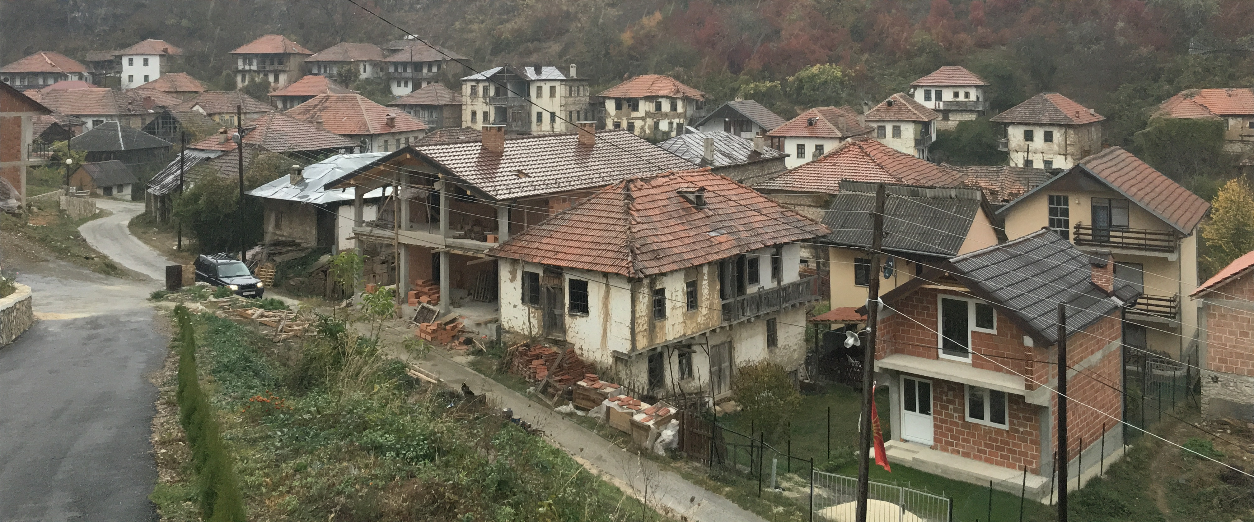 Wikiexpedition to Kopačka